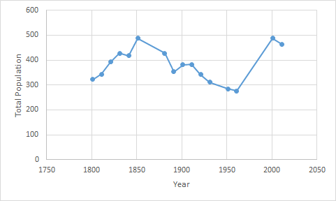 Total Population of Hessett Civil Parish, Suffolk, as reported by the Census of Population from 1801-2011